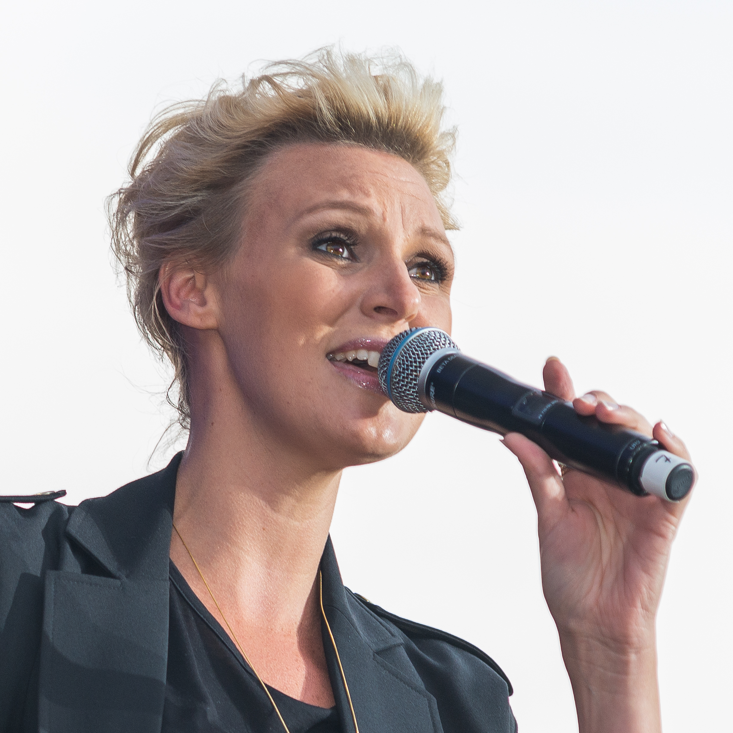 Sanna Nielsen at Stockholm Pride